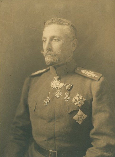 Bulgarian General Sava Panayotov Savov